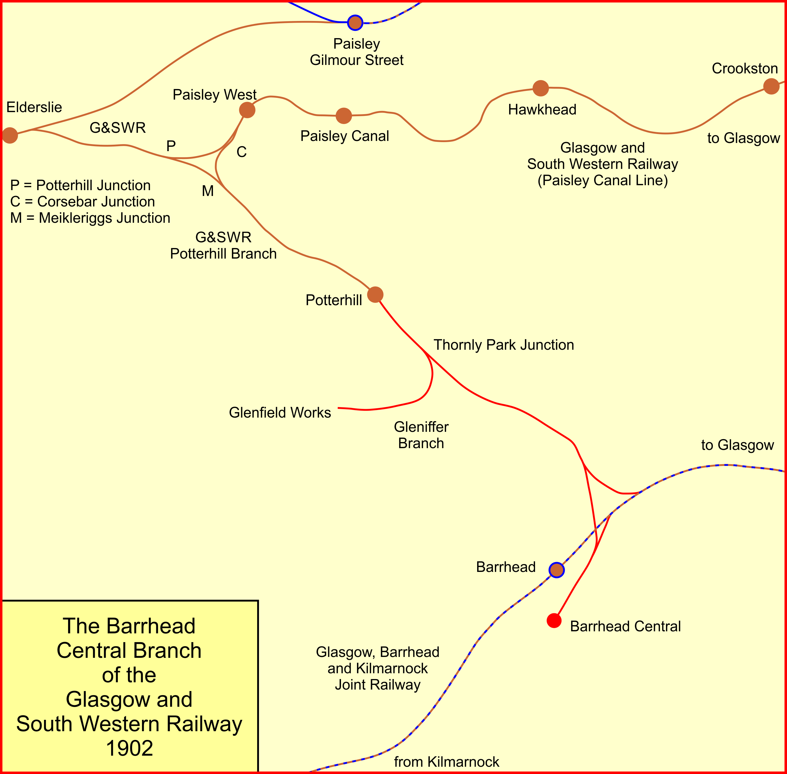 System map of the Barrhead Central Railway in 1902